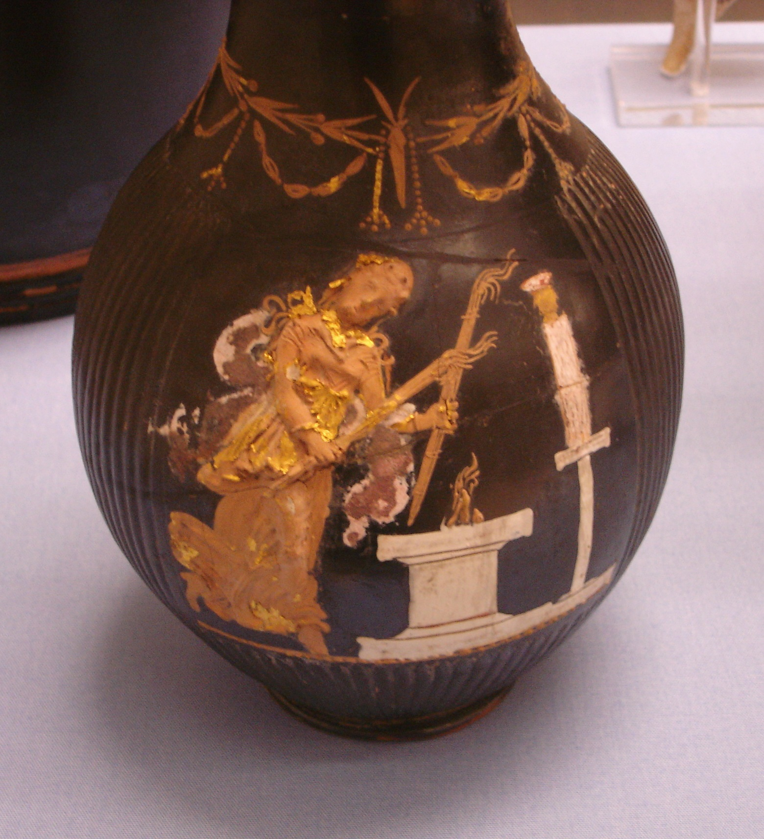 Hecate holding two torches and dancing in front of an altar, beyond which is a cult statue. The whole figure and face of the goddess was once covered with gold foil, while the little floating cloak was red. Attic black-glazed oinochoe, ca. 350–300 BC. From Capua, Italy.